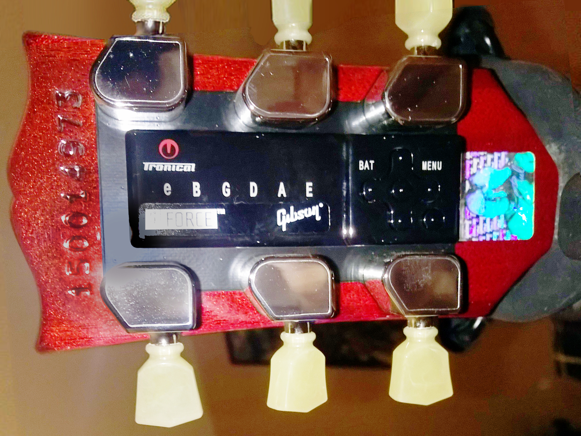 Gibson Les Paul Standard 2015 rear headstock with Min-ETune & Les Paul holography (2015-02-17 21.27.28 by sbaimo) (rotated & clipped)